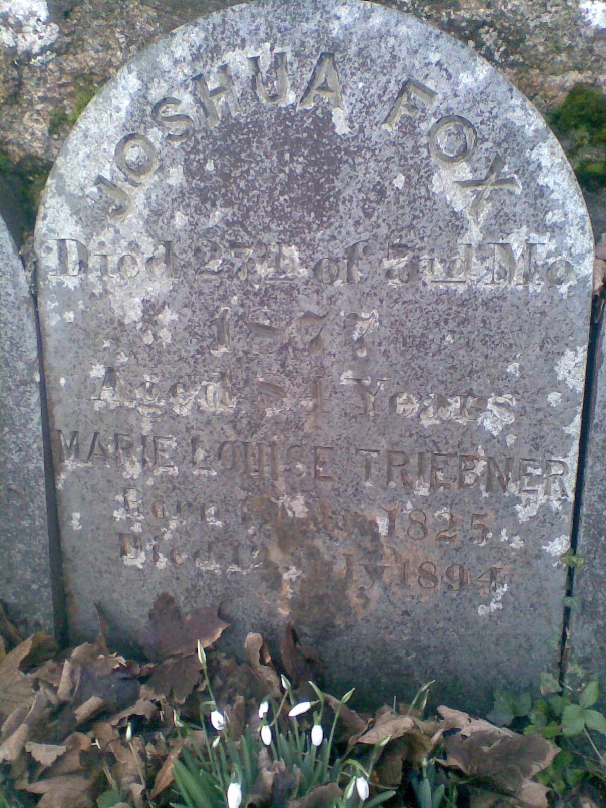 Gravestone of Joshua Fox (April 17, 1792- March 27, 1887) of Tregenda, and his second daughter, Marie Louise Triebner (1825 - July 1894) in the Quaker Burial Ground at Budock, Falmouth.